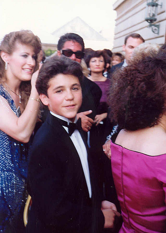 Photo taken at the 43rd Emmy Awards 8/25/91- Permission granted to copy, publish or post but please credit "photo by Alan Light" if you can